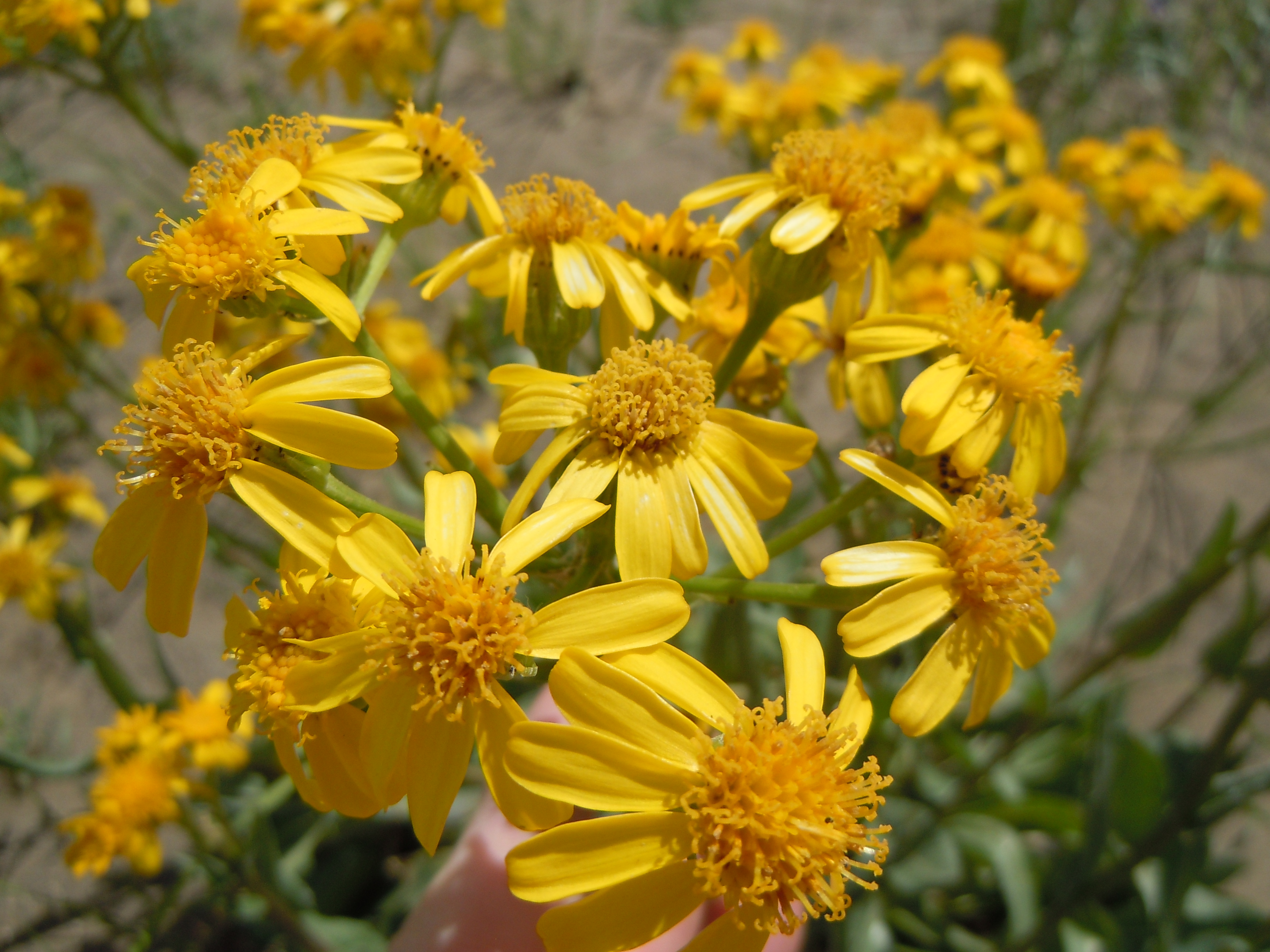 Senecio species appear to readily come back ofter a fire. This species with cottony hairs that are slowly lost during the first part of June is suggestive of S. integerrimus rather than S. crassulus.